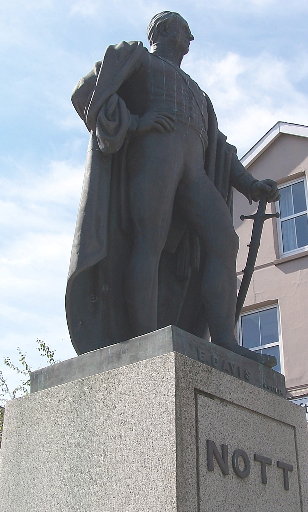 Sculpture of General William Nott in Nott Square, Carmarthen. It was erected in 1851. General Sir William Nott (1782-1845) was the son of Charles Nott, proprietor of a local inn. Nott enrolled in the Carmarthen volunteer corps and thence to the East India Company. After a distinguished military career in India and Afghanistan he retired to Carmarthen and died in January 1845. Photo by Darren Wyn Rees at Aberdare Blog